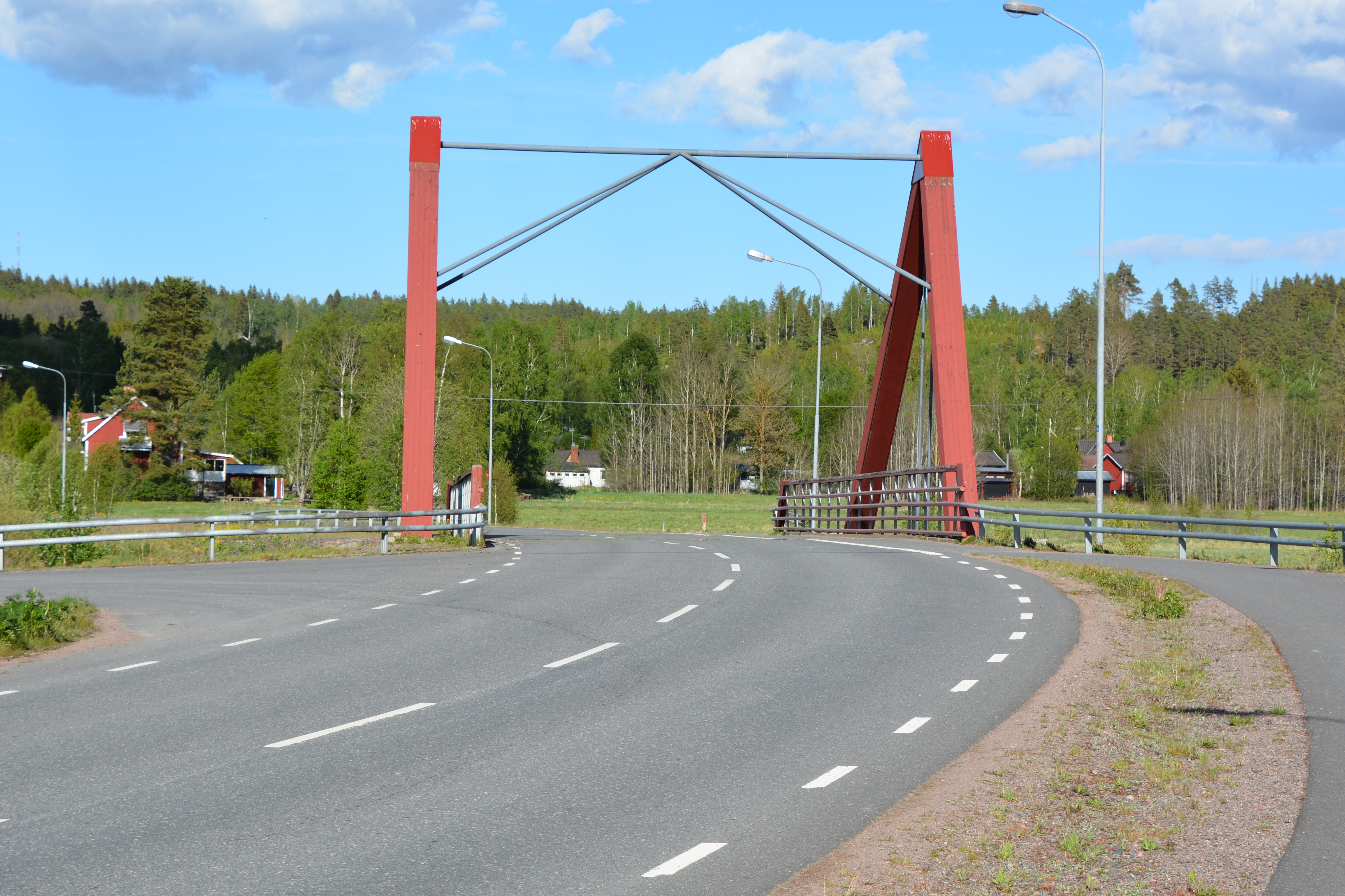 Bron över Virserumsån, Virserum